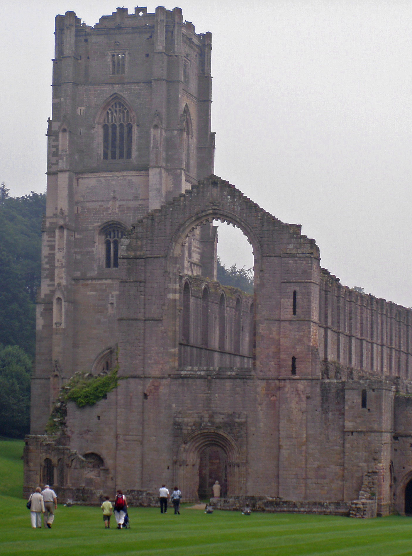 Photo of Fountains Abbey, Yorkshire, England.